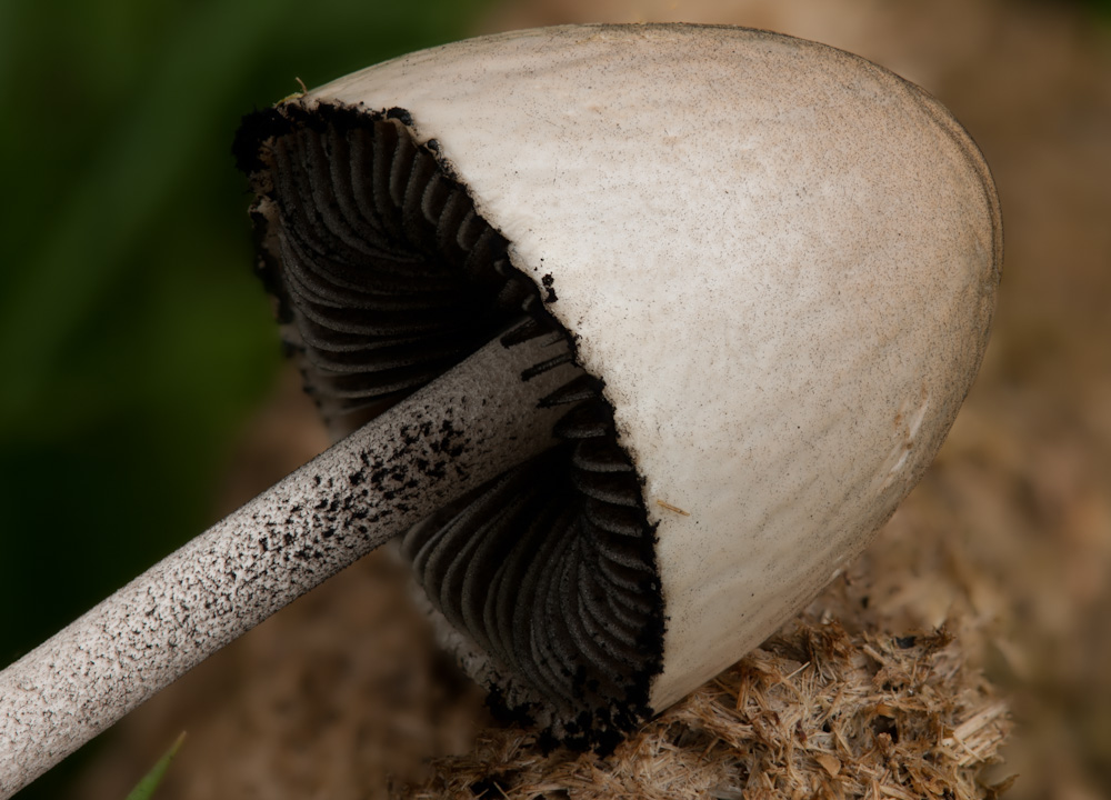 Panaeolus semiovatus. Egghead Mottlegill. August 2012 Hampshire UK